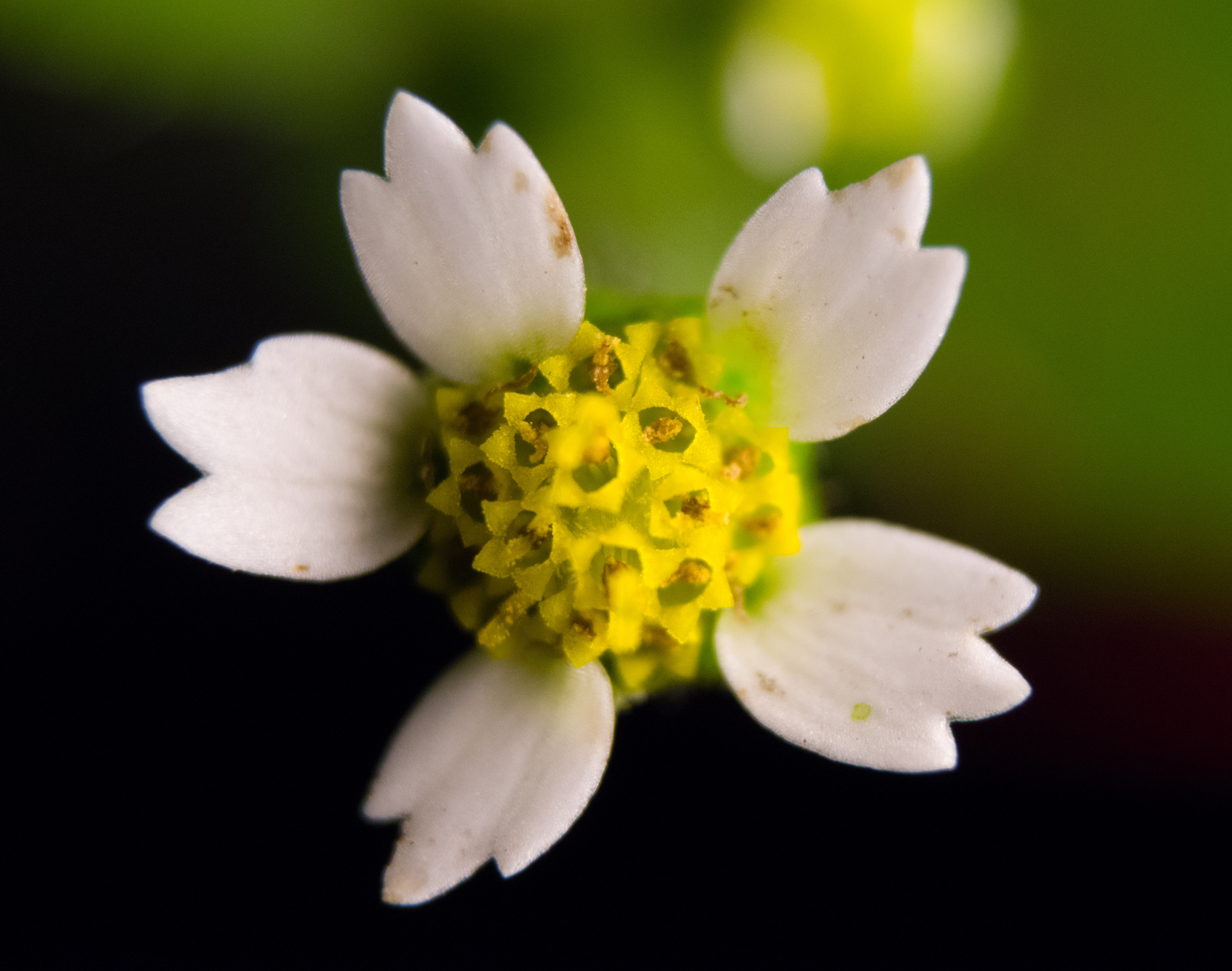 macro photograph of Galinsoga quadriradiata flower showing ray and disk florets. No scale is present.